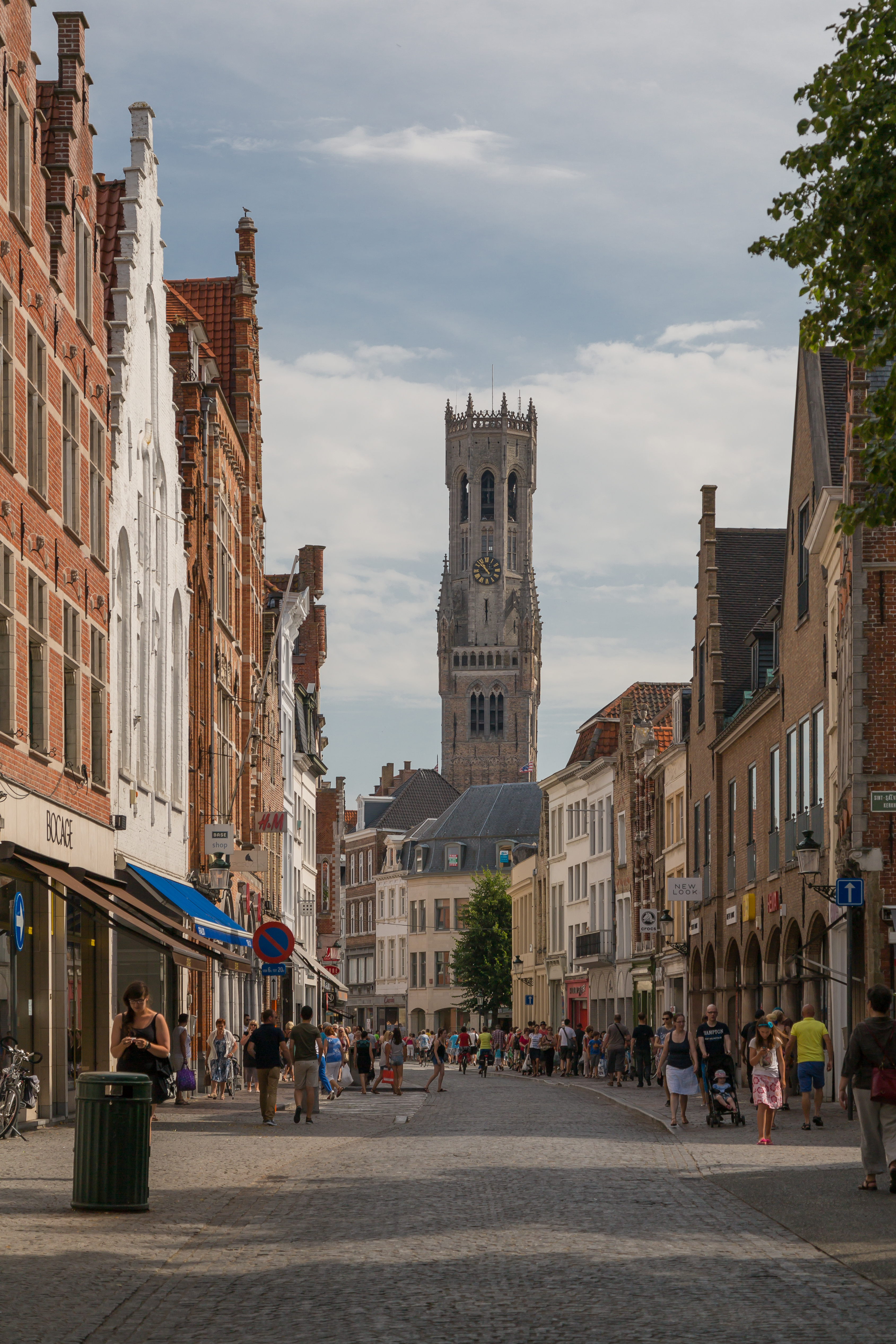 Bruges, Belgium: View of Steenstraat with the Belfry of Brugge in the background